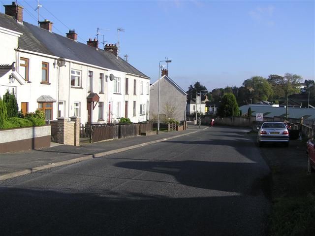 Coalisland Heading south-east into the town